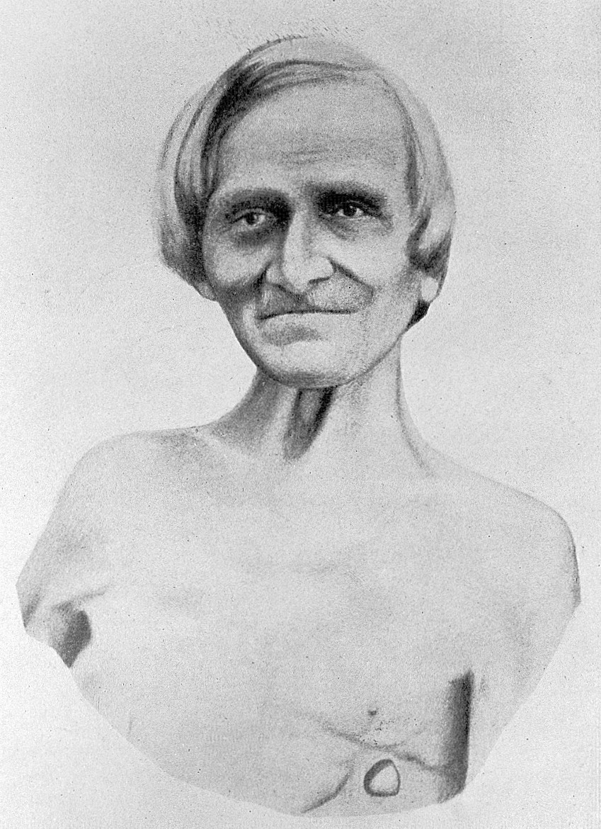 Picture of Alexis St. Martin, celebrated patient of Dr. William Beaumont